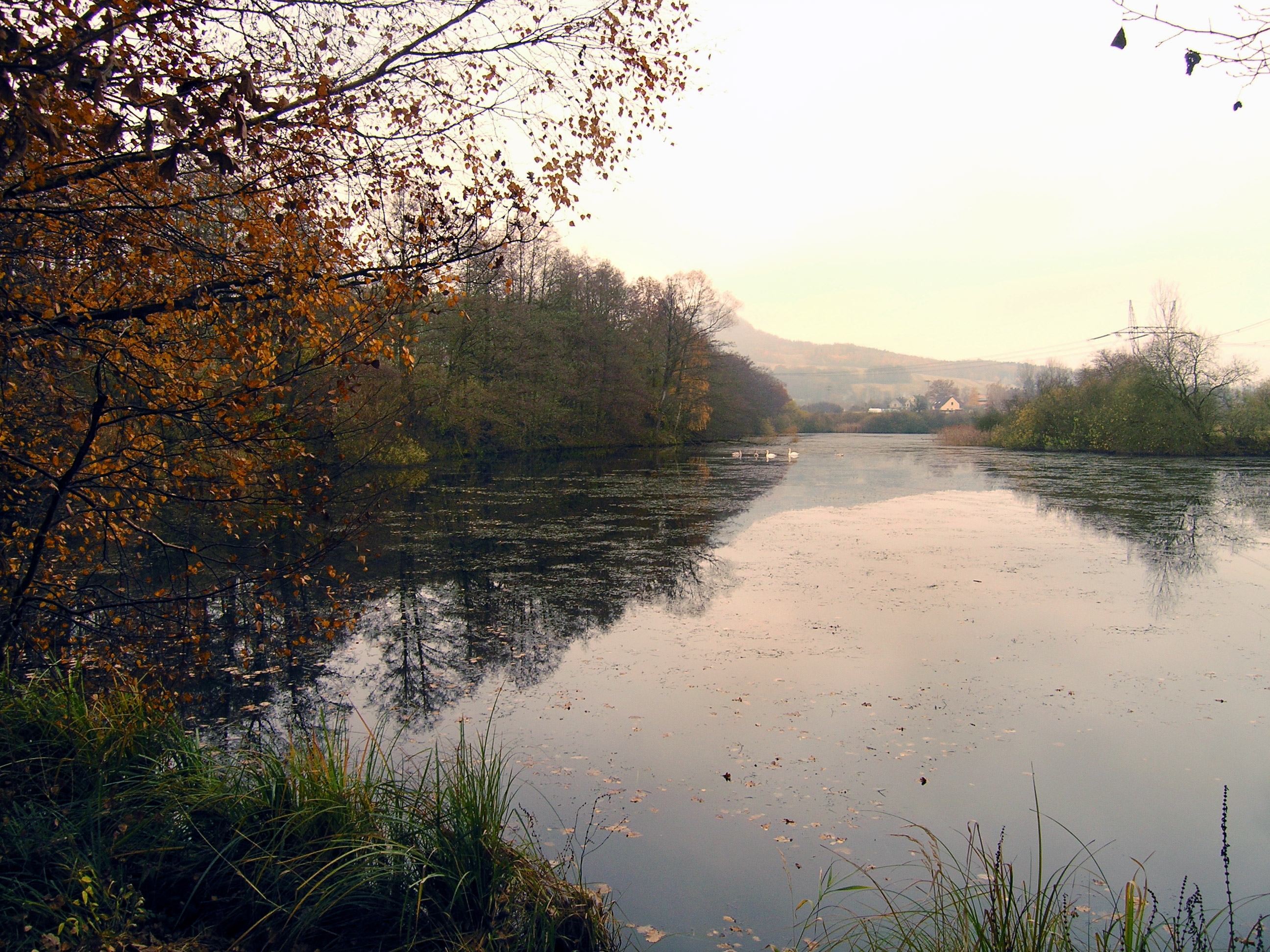 Nebeský pond by Stvolínky village, Czech Republic